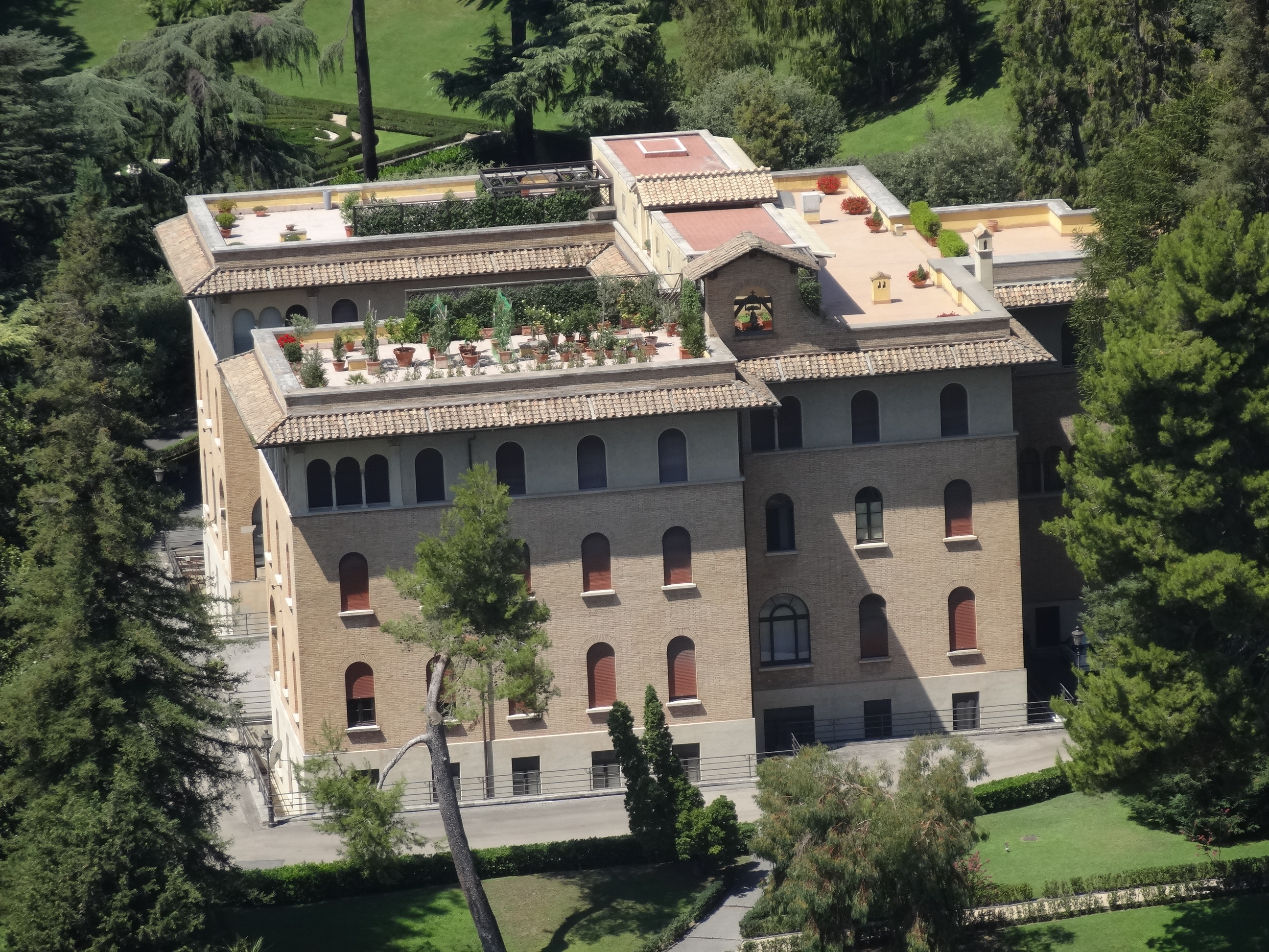 Views from the dome of Saint Peter's Basilica. August 2016. Pontifical Ethiopian College